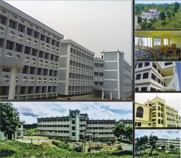 Sylhet Engineering College SUET Campus.jpg